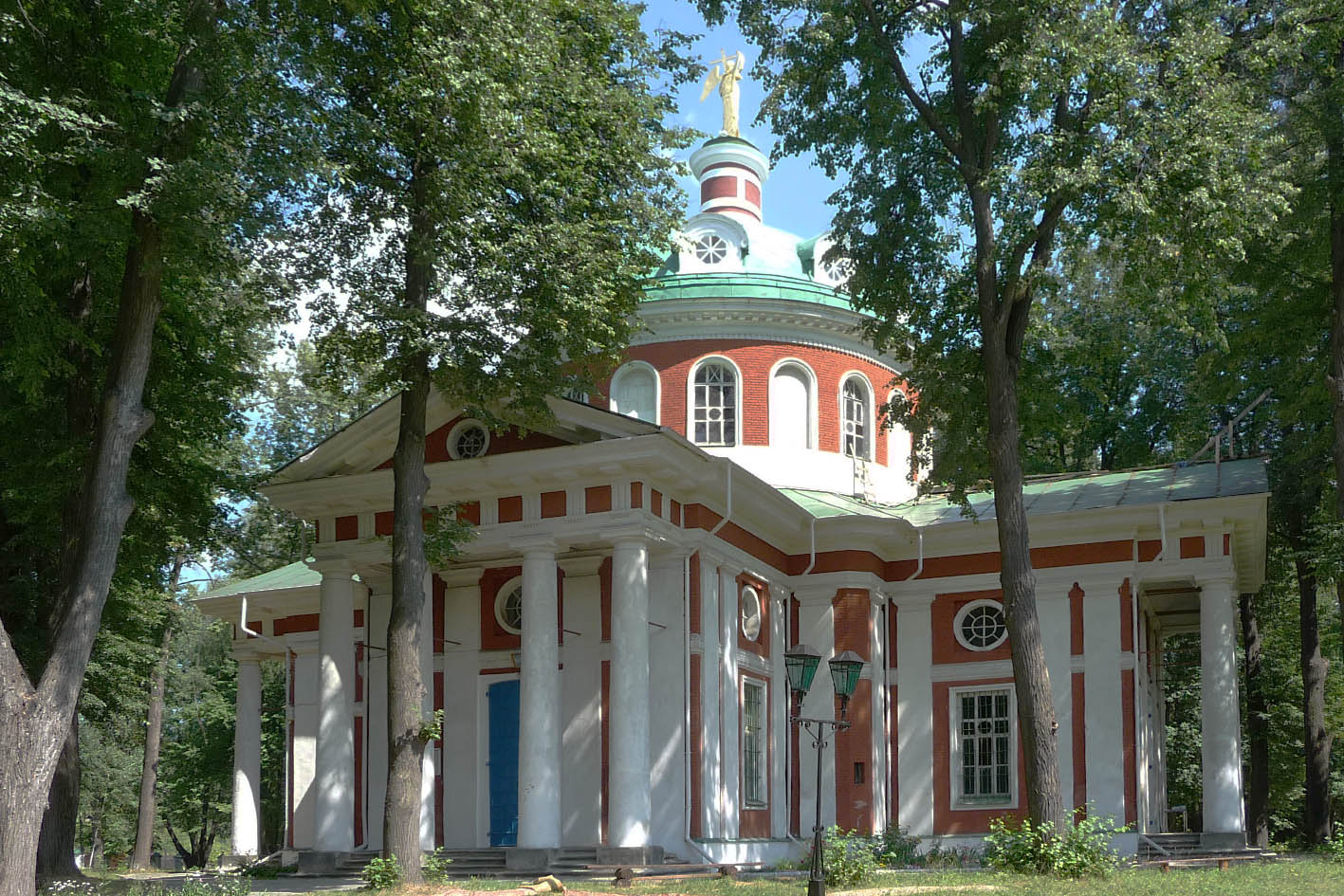 The Church of the Theotokos of Grebnevo (1786). The village of Grebnevo. Shchyolkovsky District, Moscow oblast, Russia.